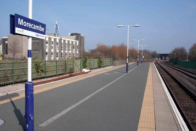 Morecambe railway station Original description: Looking down the platform Waiting for the train to Lancaster at sunny Morecambe